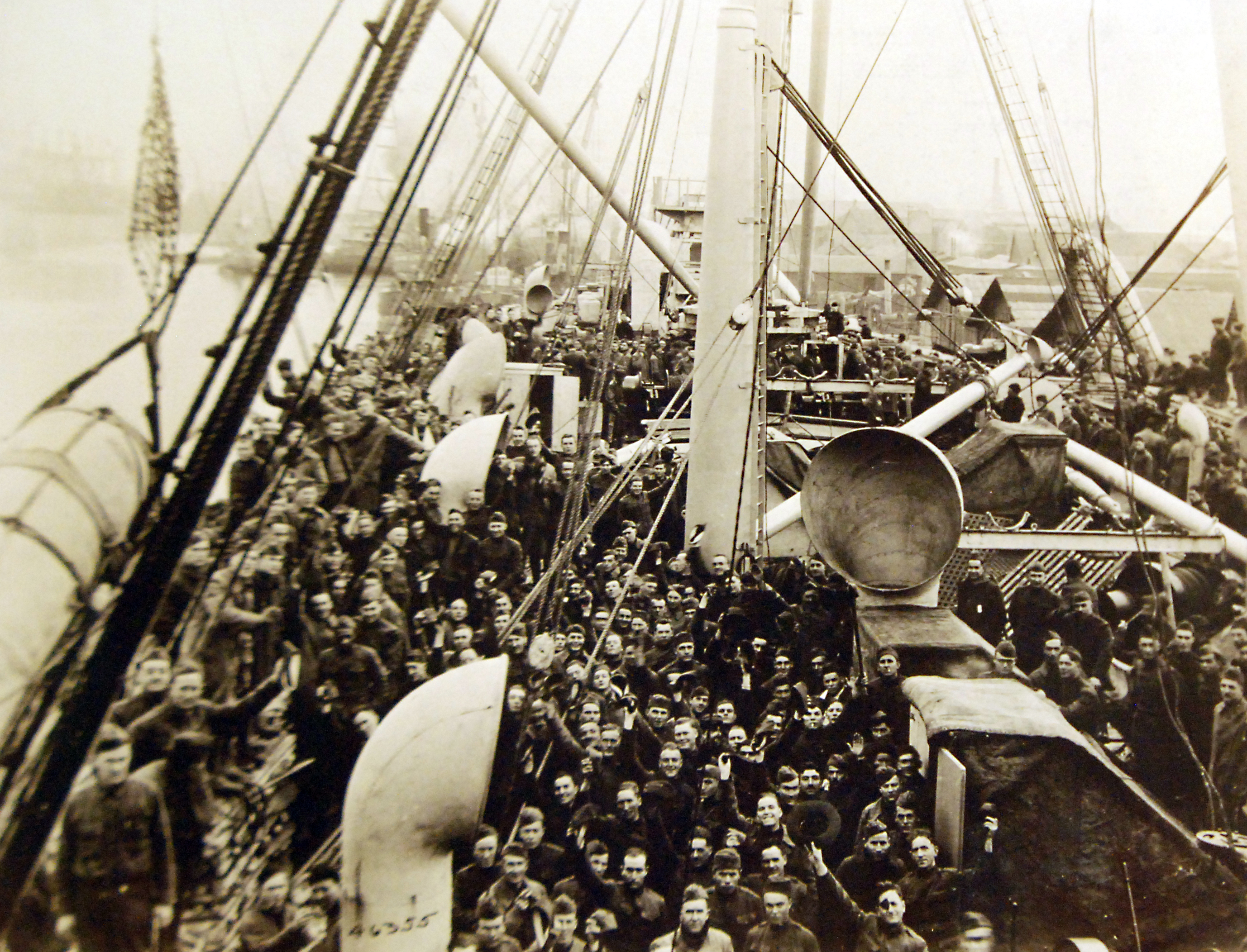 Lot-8311-3: WWI: American Expeditionary Forces: U.S. Army. View from the bridge of USS Manchuria (ID #1633) looking down on deck, showing men on board waving “Goodbye” to people on docks as whistle blows departing warning. These men are from many different organizations, St. Nazaire, France, January 10, 1919. U.S. Army Signal Corps Photograph. Courtesy of the Library of Congress. (2017/02/24).